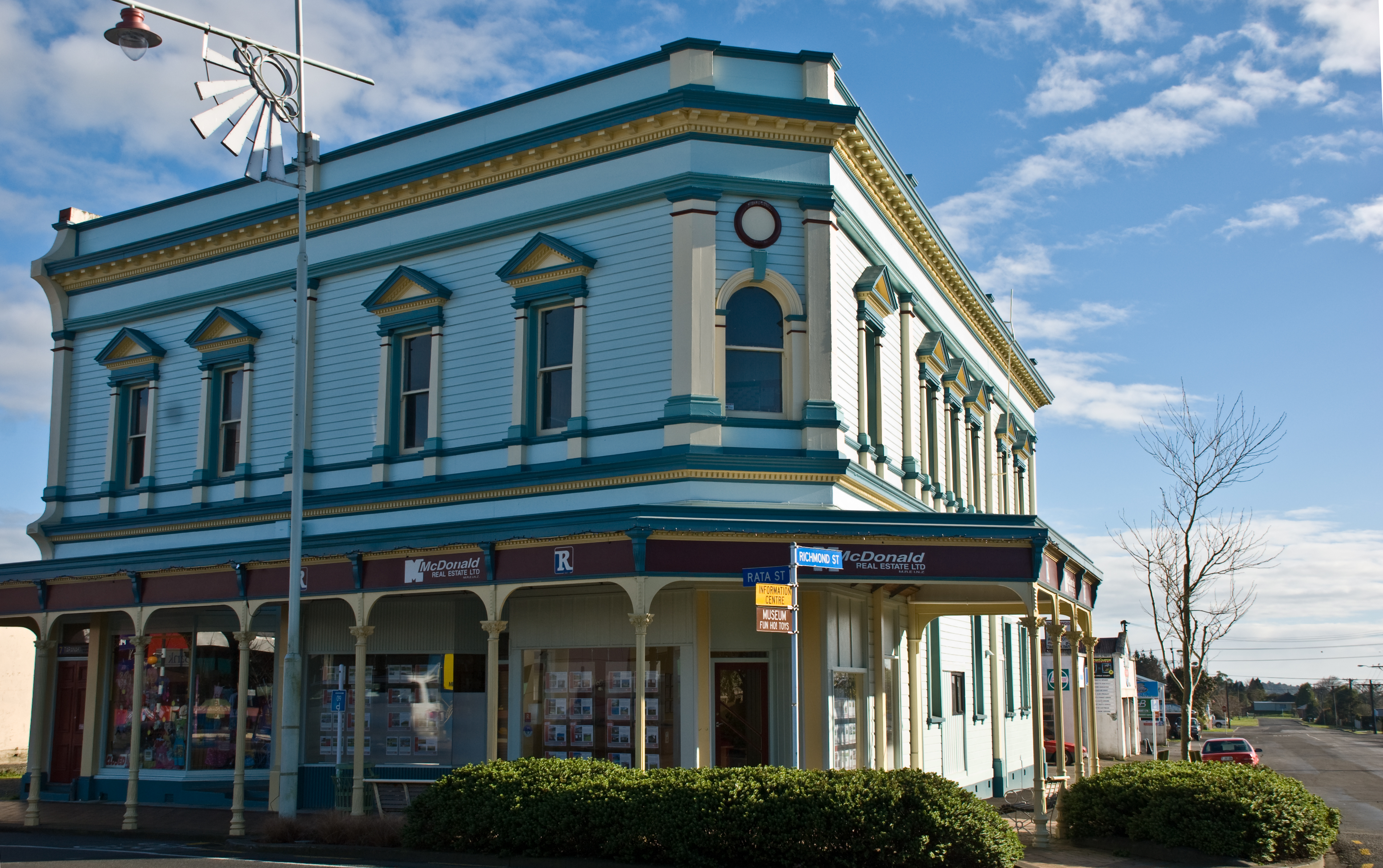 Victorian survivor, Inglewood, Taranaki, New Zealand, 10 August 2008. The building is registered by the New Zealand Historic Places Trust as a Category II structure, with registration number 876.